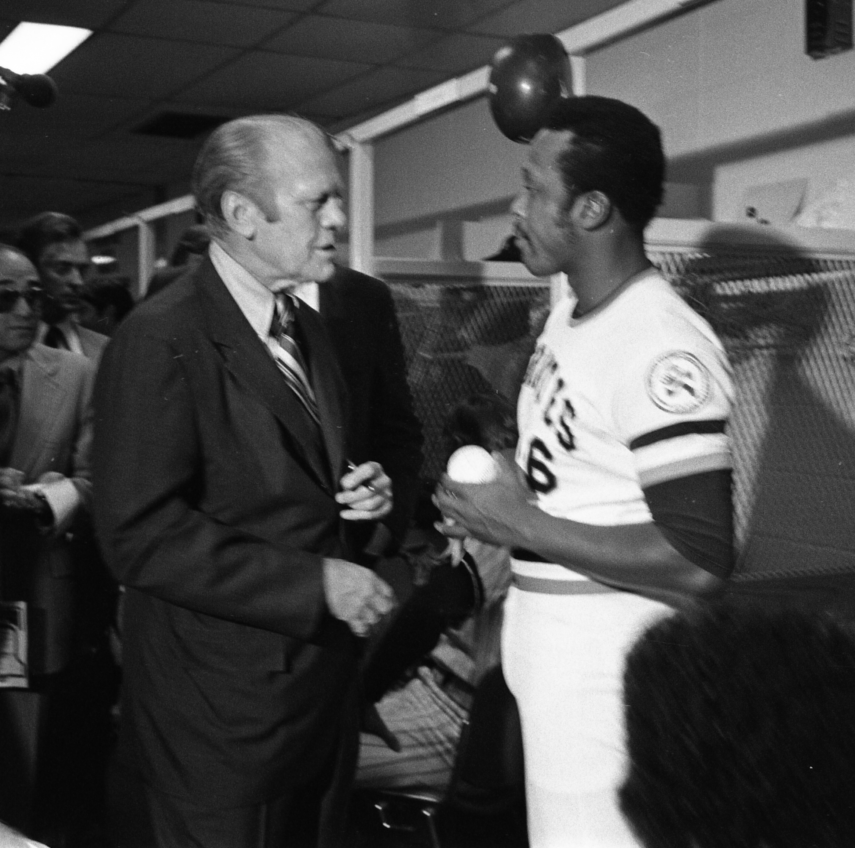 Photograph of President Gerald R. Ford Speaking with Al Oliver of the Pittsburgh Pirates Baseball Team prior to the 1976 Major League All-Star Game